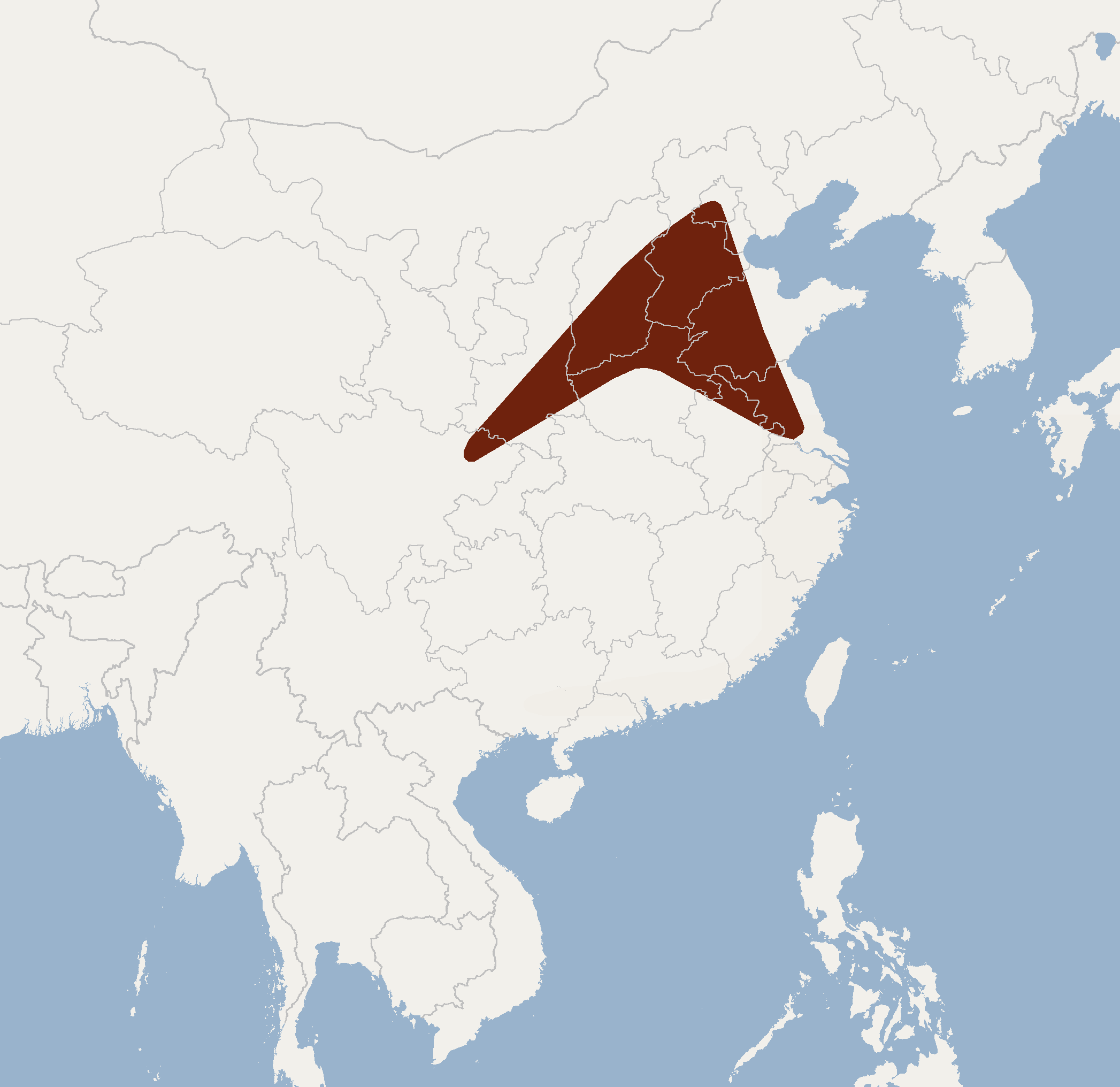 According to smith & Xie, 2008